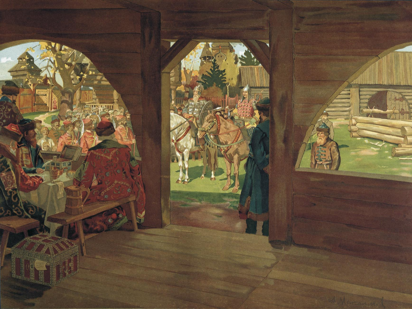 Aleksey Maksimov (1870-1921). To the Sovereign's Service.